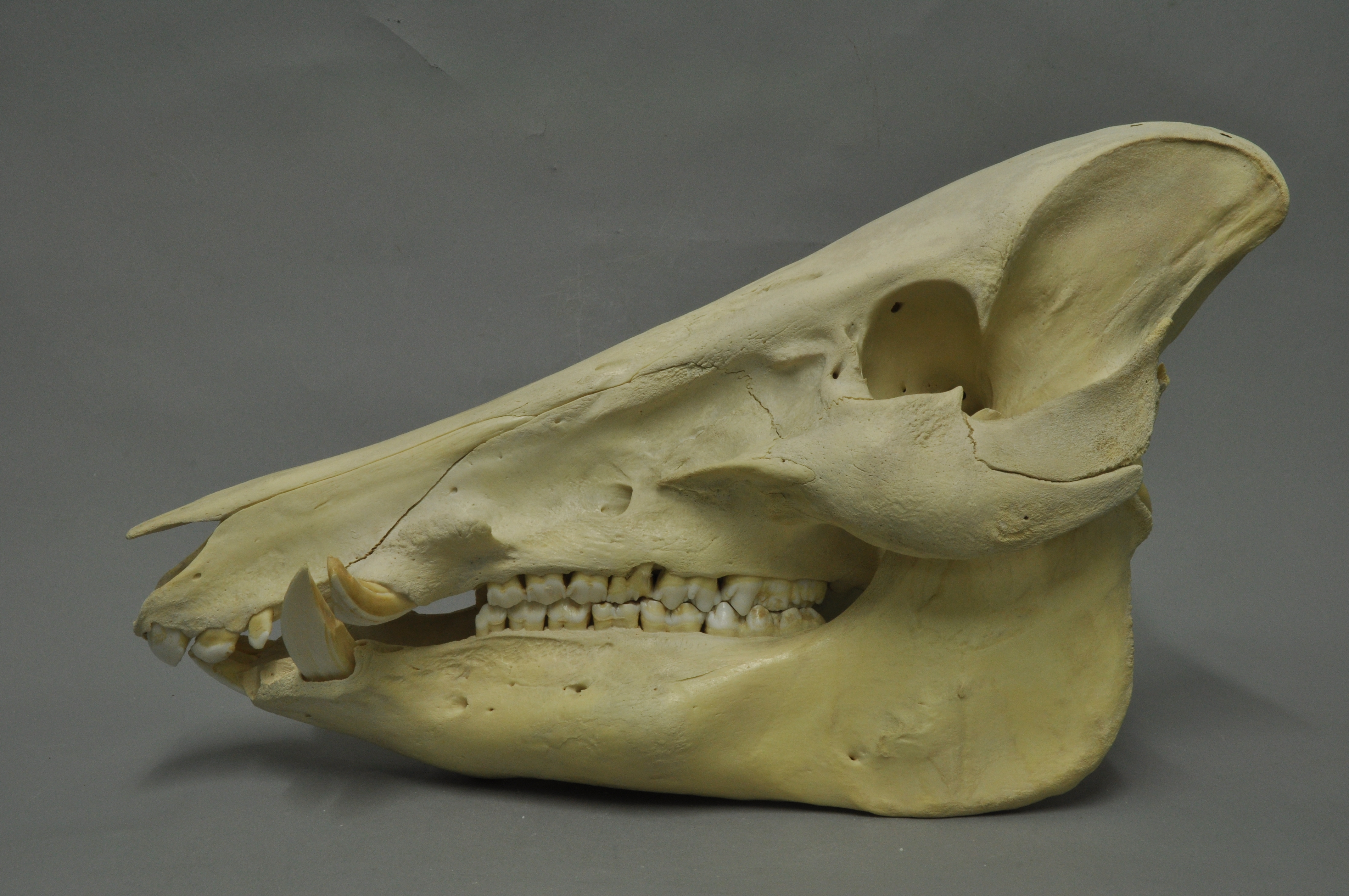 Javan warty pigSus verrucosus , skull, Coll. Museum Wiesbaden